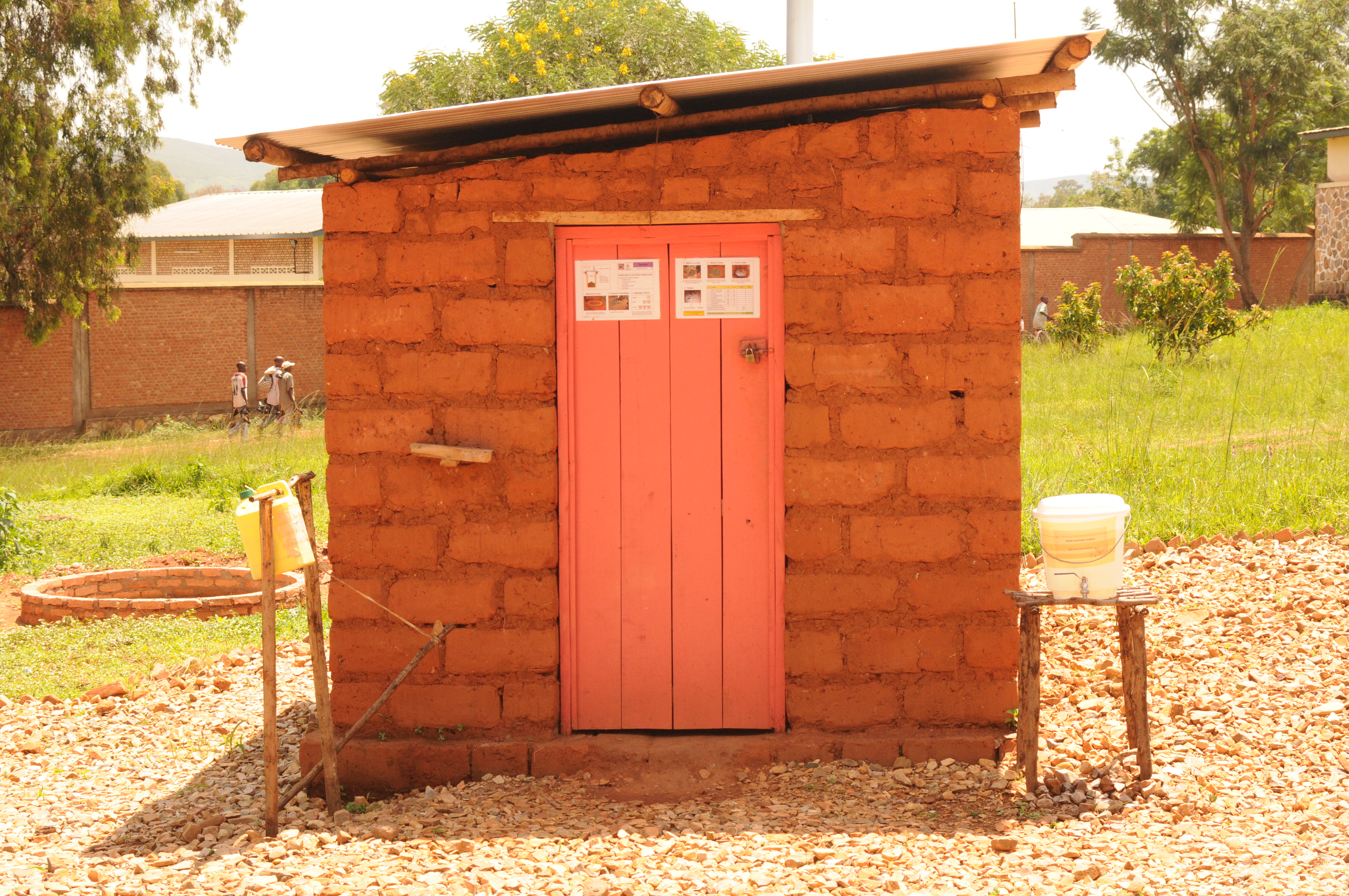 Burundi - Sanitation in Gitega / Assainissement à Gitega 2012